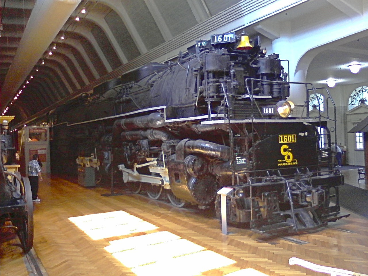 Chesapeake and Ohio Railway no 1601, "Allegheny", 2-6-6-6, by the Lima Locomotive Works. Currently on display at The Henry Ford